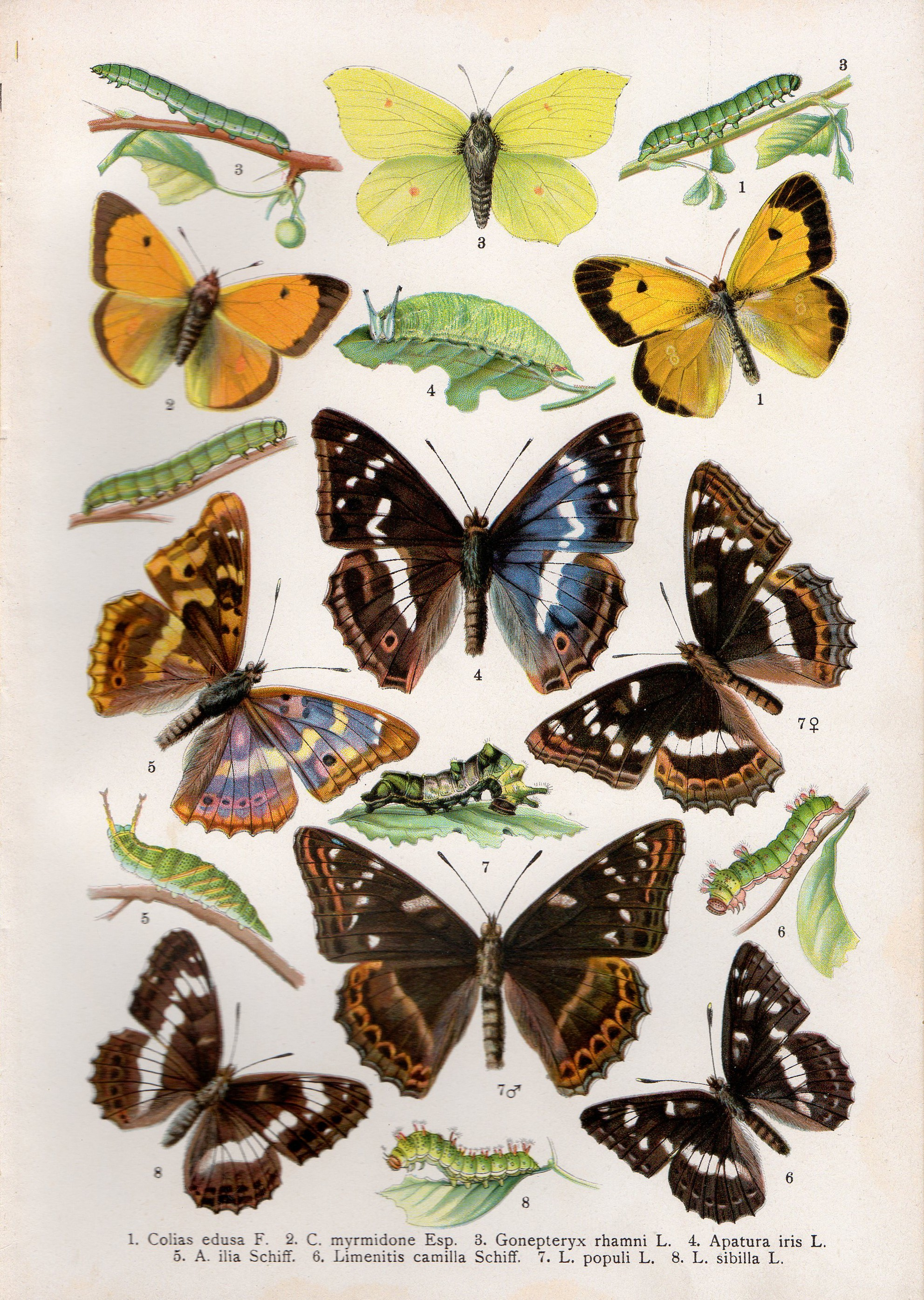 Table of Lepidoptera. From Joukl (1862-1910): "Motýlové a housenky střední Evropy" 1910.